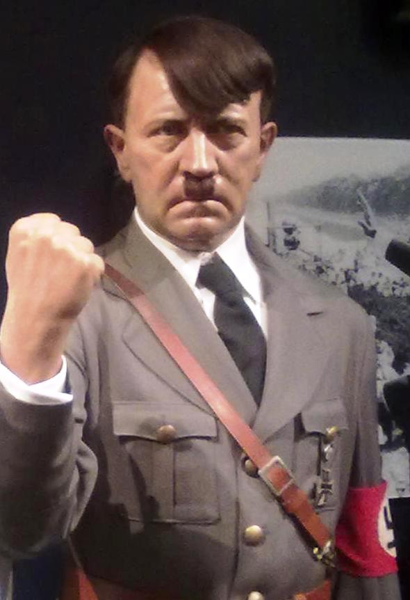 Adolf Hitler Wax Statue in Madame Tussauds London